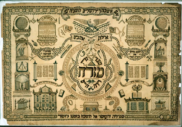 Mizrach Omer Calender, by Moses H. Henry, Cincinnati, 1850. Ink on paper. Courtesy of the HUC Skirball Cultural Center Museum Collection, Los Angeles. A mizrach serves as a symbolic orientation towards Jerusalem, the direction towards which prayer is oriented. This highly complex mizrah illustrates Moses Henry's patriotism with the motif of the American eagle astride a shield and bunting of the Stars and Stripes. The architectural images also make reference to the ideals of Freemasonry, as during the nineteenth century many Jews began to join Masonic orders. This mizrah has a second function as an omer calendar, as the forty-nine roundels in the border count the seven weeks between the holidays of Passover and Shavuot. The legend at the top reads "If I forget thee, O Jerusalem, let my right hand wither" (Psalms 137:5).